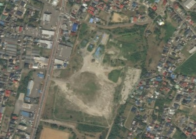 Yurihonji Arena Building Site